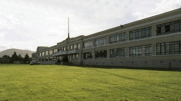 Art Deco Inverness High School, Montague Row, Inverness Opened in 1937, the present building is a magnificent example of Art Deco architecture and is naturally listed. The architects were George Reid and James Smith Forbes of the Reid & Forbes practice In early June 2008 the building received an almost £30,000 paint job in preparation for the visit of Prince Charles and Camilla, hopefully restoring the building to a gleaming white finish.